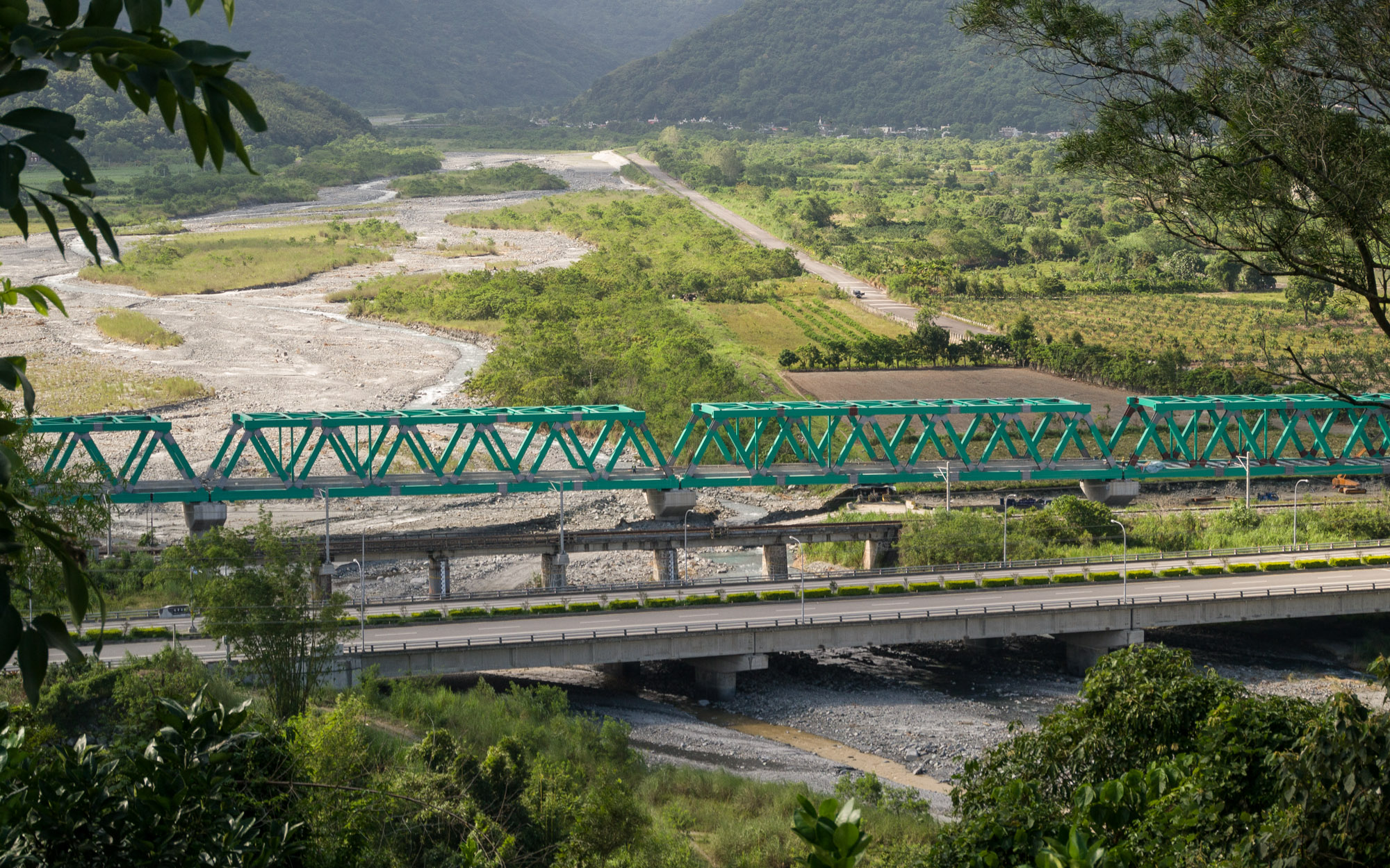 Bridge in Taiwan